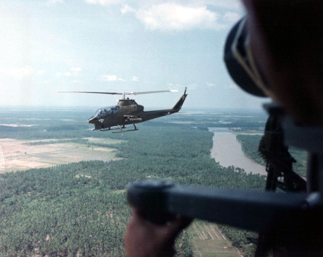 AH-1G Cobra helicopter, Troop C, 7th Sqdn., 1st Cav. Regt., 1st Avn. Bde., Vietnam, 1968.